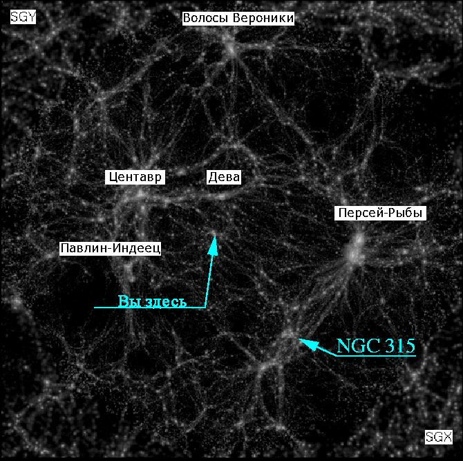 The present day dark matter distribution in a slice cut through a simulation of a flat universe with cosmological constant. The slice has a side length of 520 million light years, and a thickness of 100 million light years. It contains the so-called "supergalactic plane". The major nearby clusters, like Coma, Virgo, Perseus, are labelled.